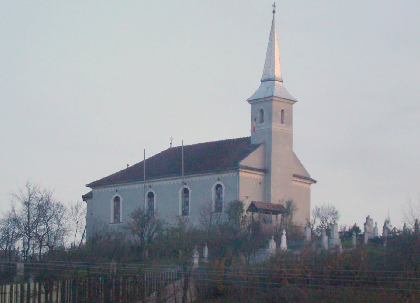 Poiana Aiudului, Alba county, Romania